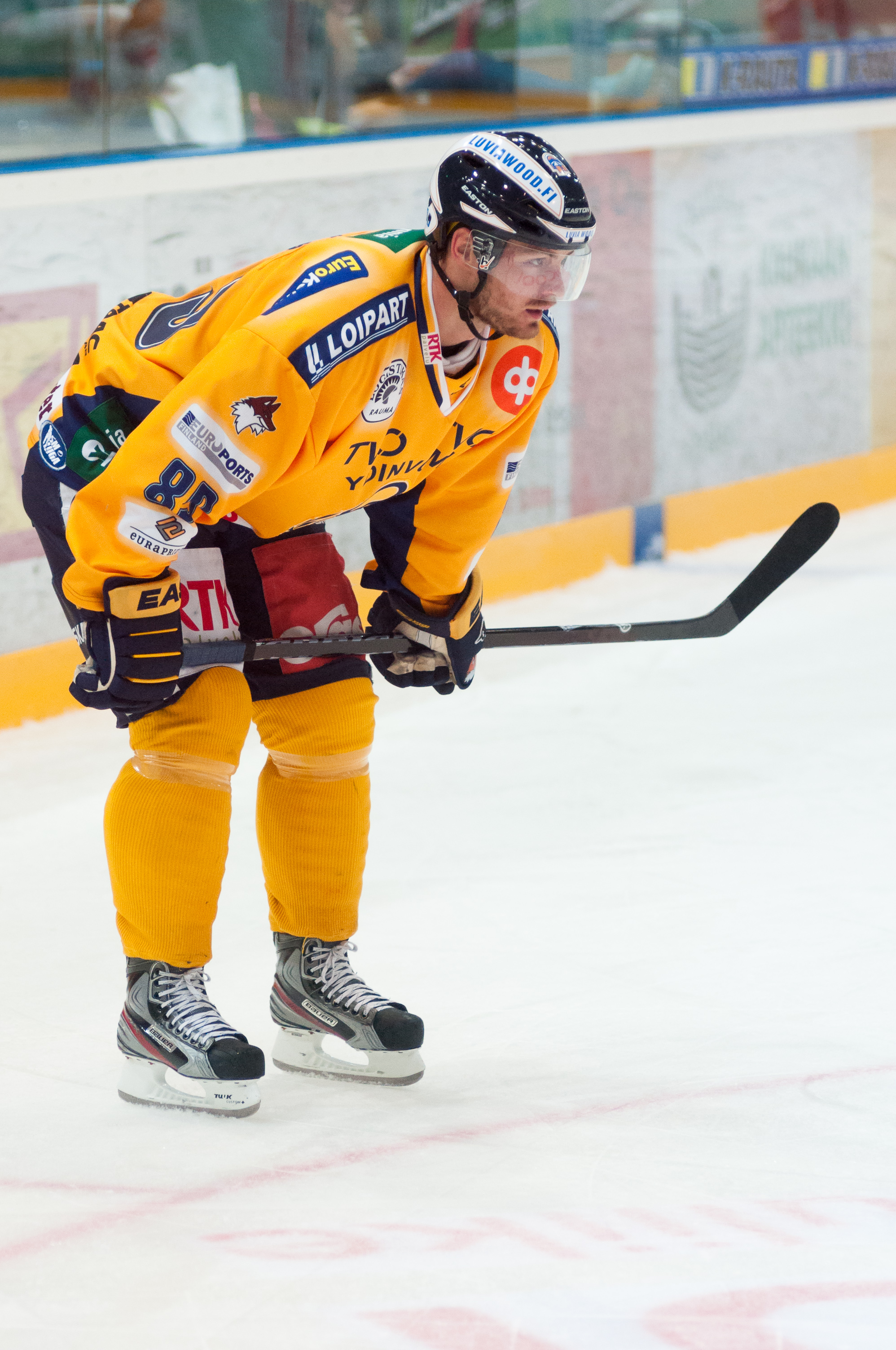 Danish ice hockey right winger Mikkel Bødker playing for Rauman Lukko against SaiPa Lappeenranta in Lappeenranta, Finland.